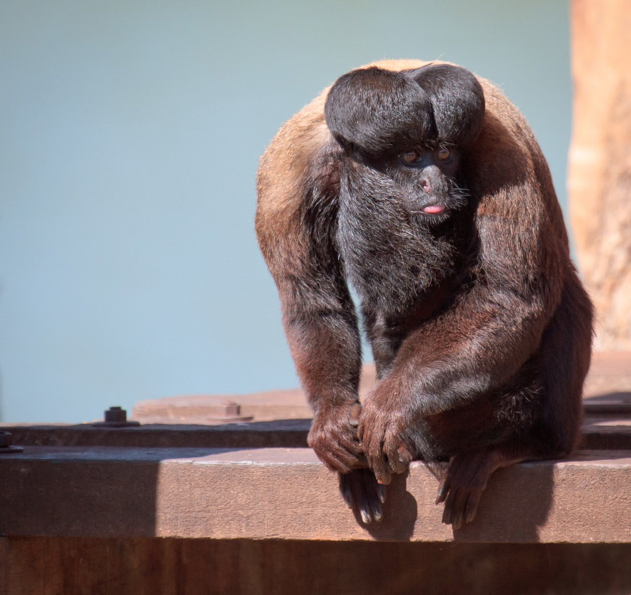 Uta Hick's Saki (Chiropotes utahickae).